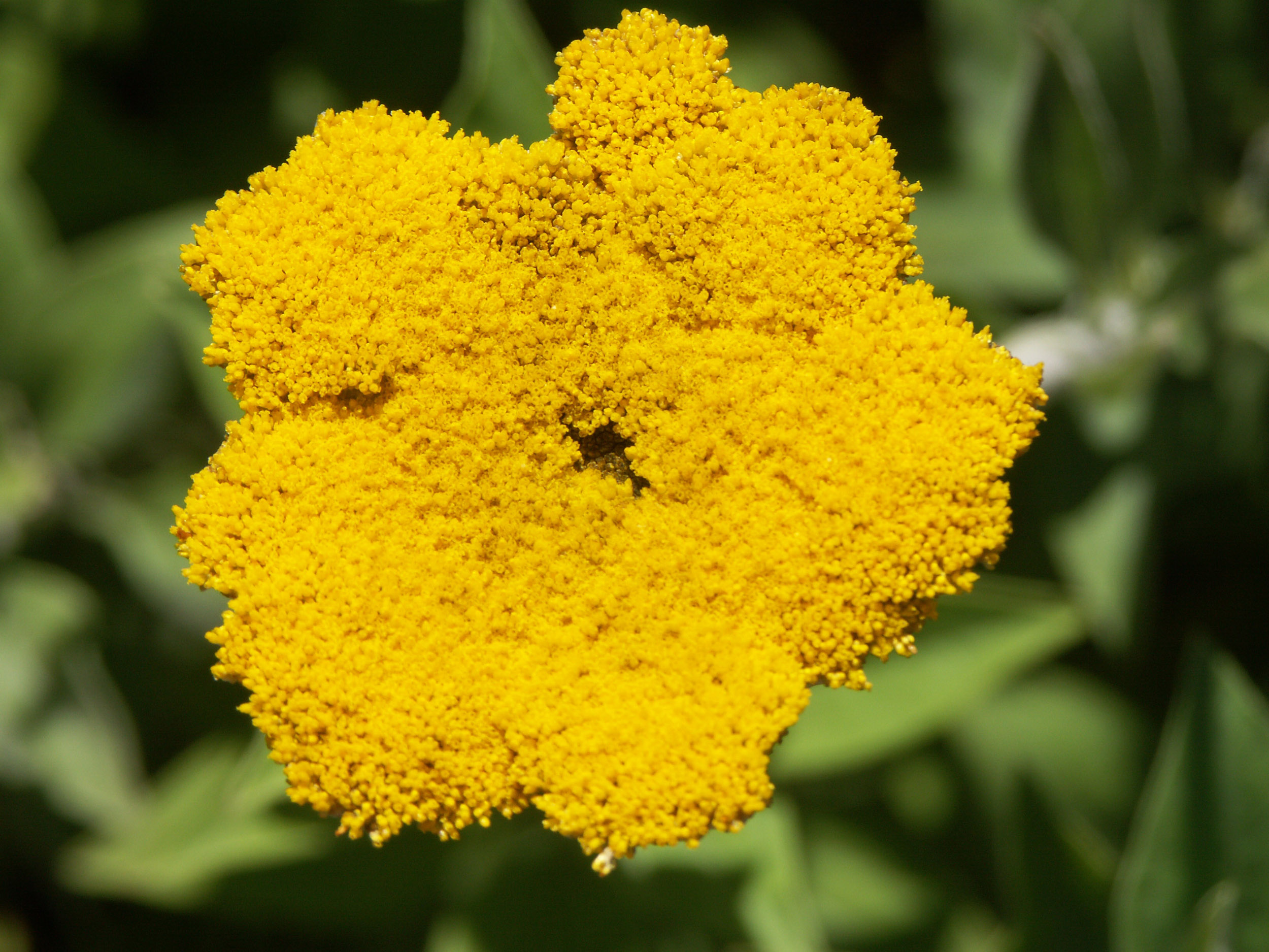 Helichrysum umbraculigerum in Kirstenbosch Botanical Gardens, South Africa